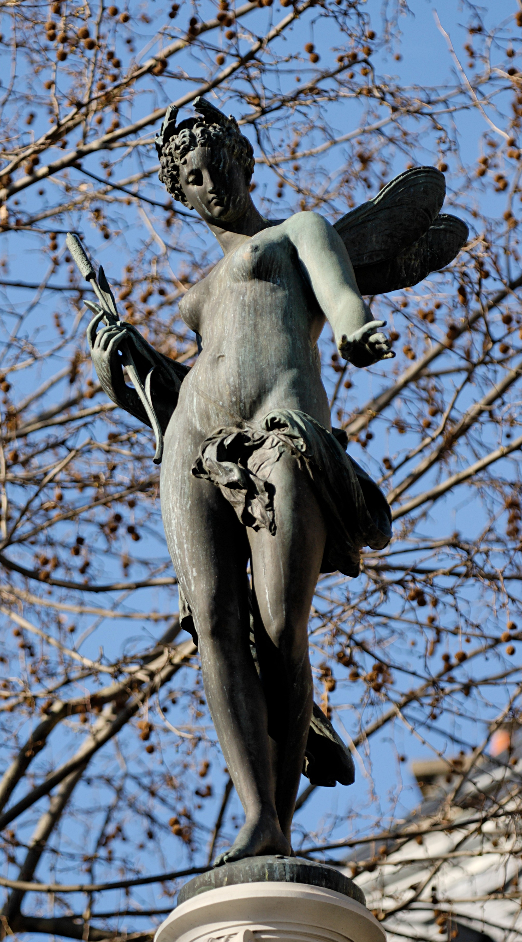 Fluvial Nymph, by Mathurin Moreau (French, 1822–1912), from a fountain on the Place du Théâtre-Français, near the Rue de Richelieu, in Paris. Bronze, 1874.